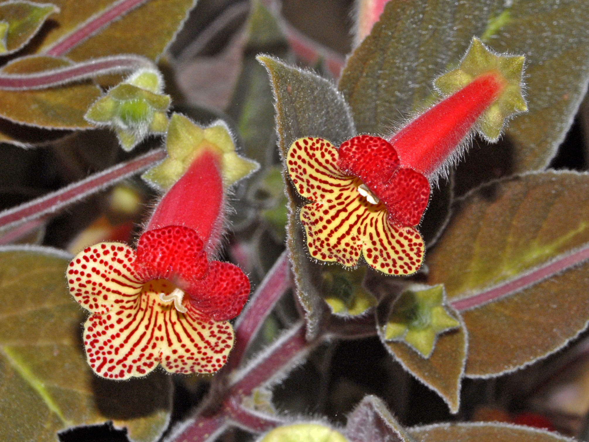 Flowers of Kohleria amabilis var. bogotensis at Villa Durazzo-Pallavicini, Genova Pegli